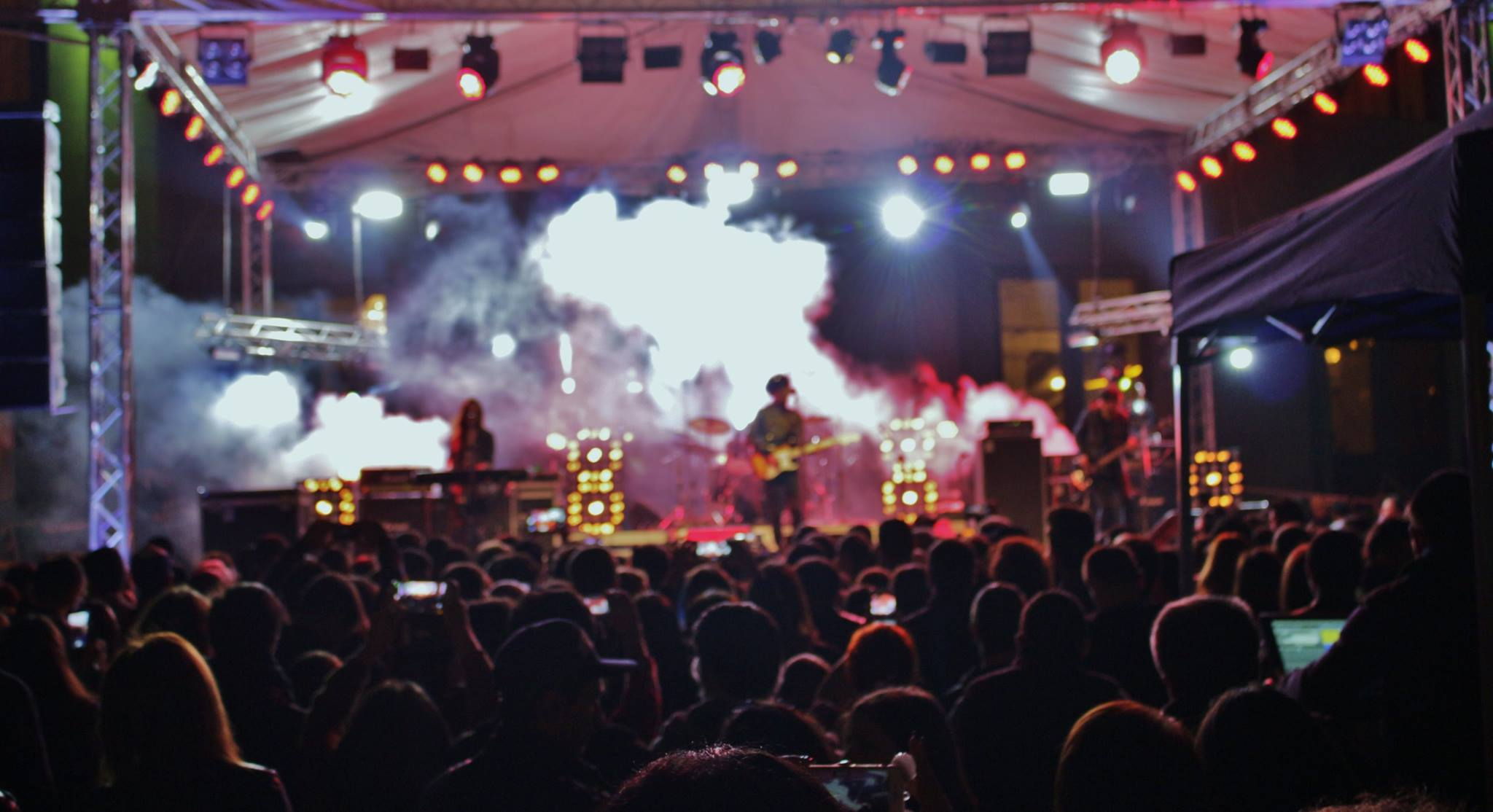 On October 14 Nemra was a special guest during Erebuni-Yerevan rock concert (Freedom Square)